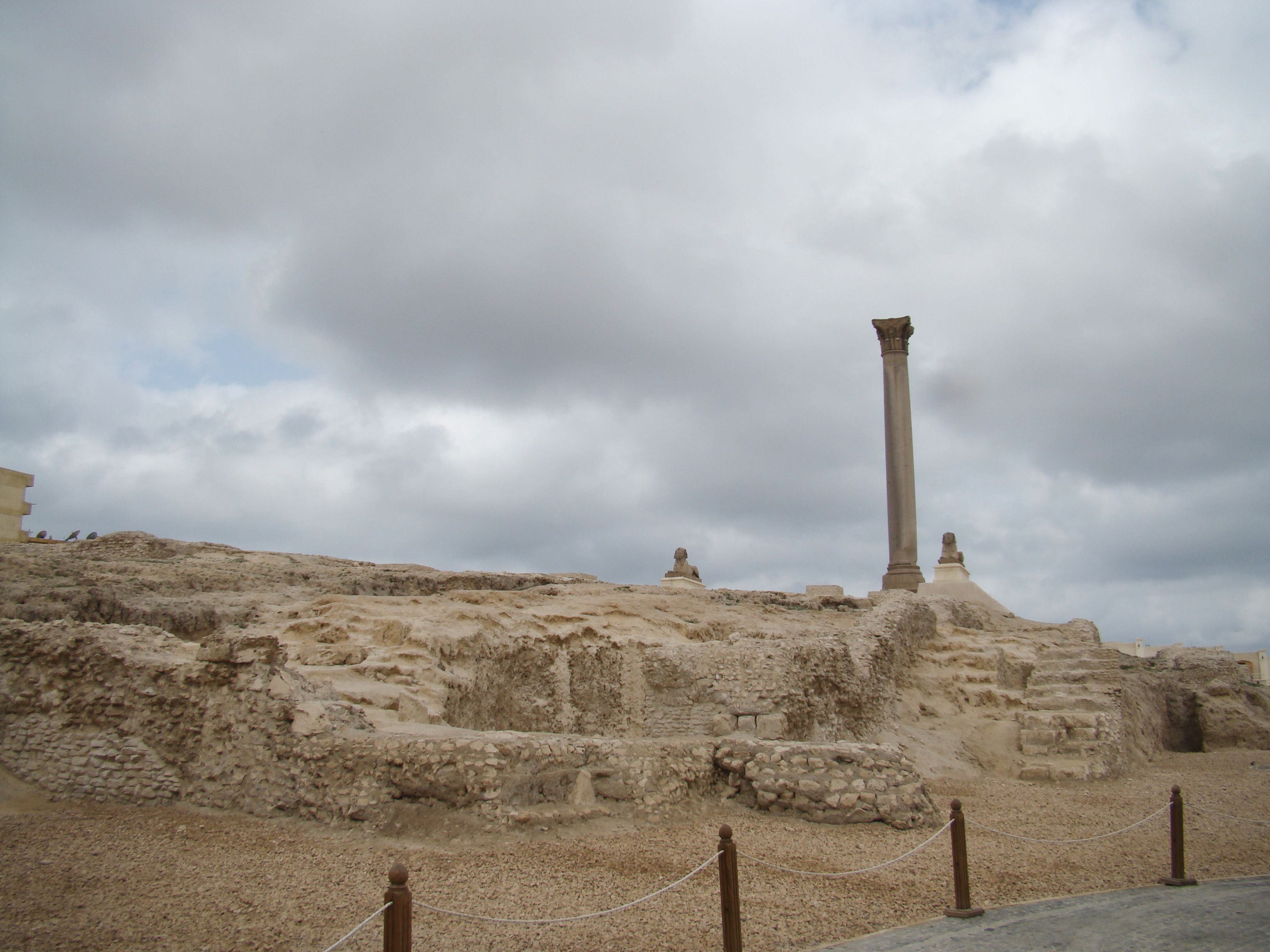 AWIB-ISAW: The Serapeum of Alexandria (I) The remains of the ancient site of the Temple complex of Sarapis at Alexandria. It once included the temple, a library, lecture rooms, and smaller shrines but after many reconstructions and conflict over the site it is mostly ground level ruins. by Iris Fernandez (2009) copyright: 2009 Iris Fernandez (used with permission) photographed place: Alexandria [ Published by the Institute for the Study of the Ancient World as part of the Ancient World Image Bank (AWIB). Further information: [